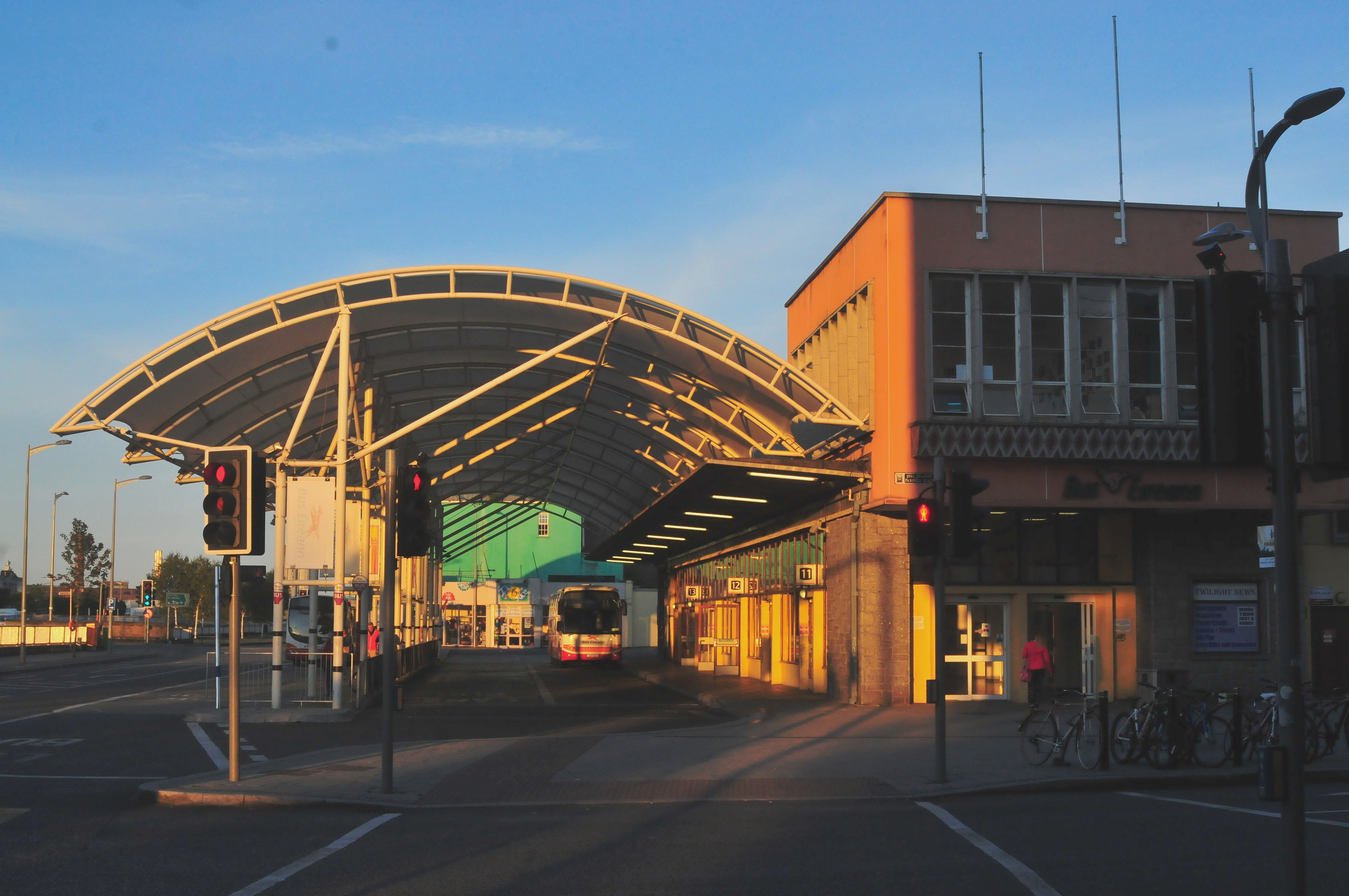 Cork City bus station 2017